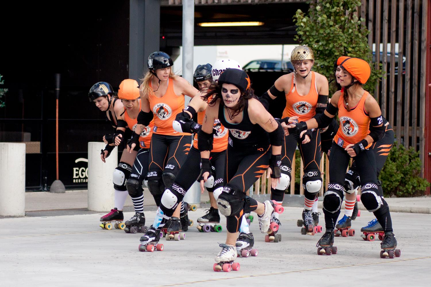 Oslo Roller Derby plays demo bout at Storo Senter summer 2014